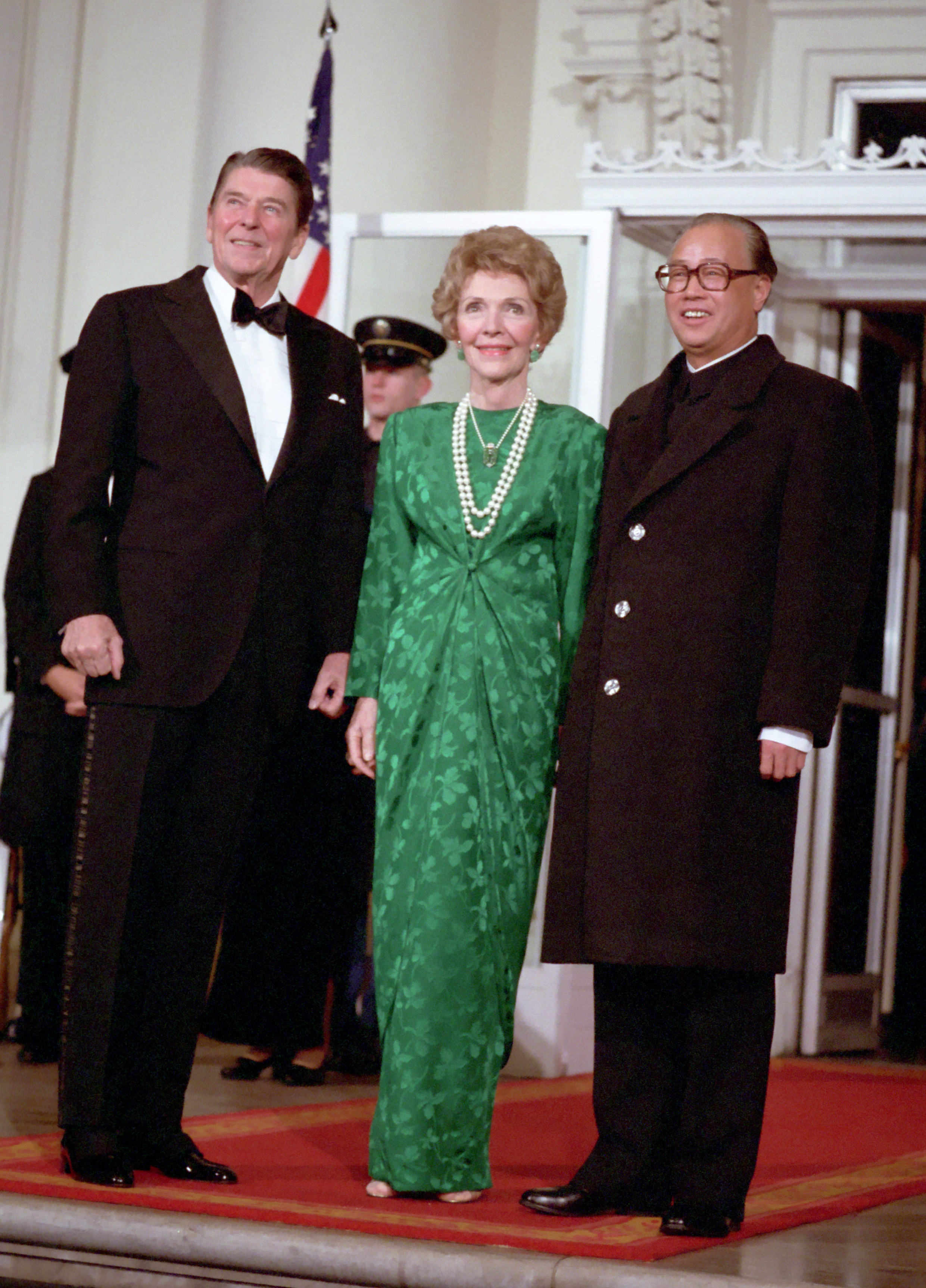 President Reagan and Nancy Reagan with Premier Zhao Ziyang of the Peoples Republic of China on North Portico before the State Dinner on North Portico. 1/10/84.